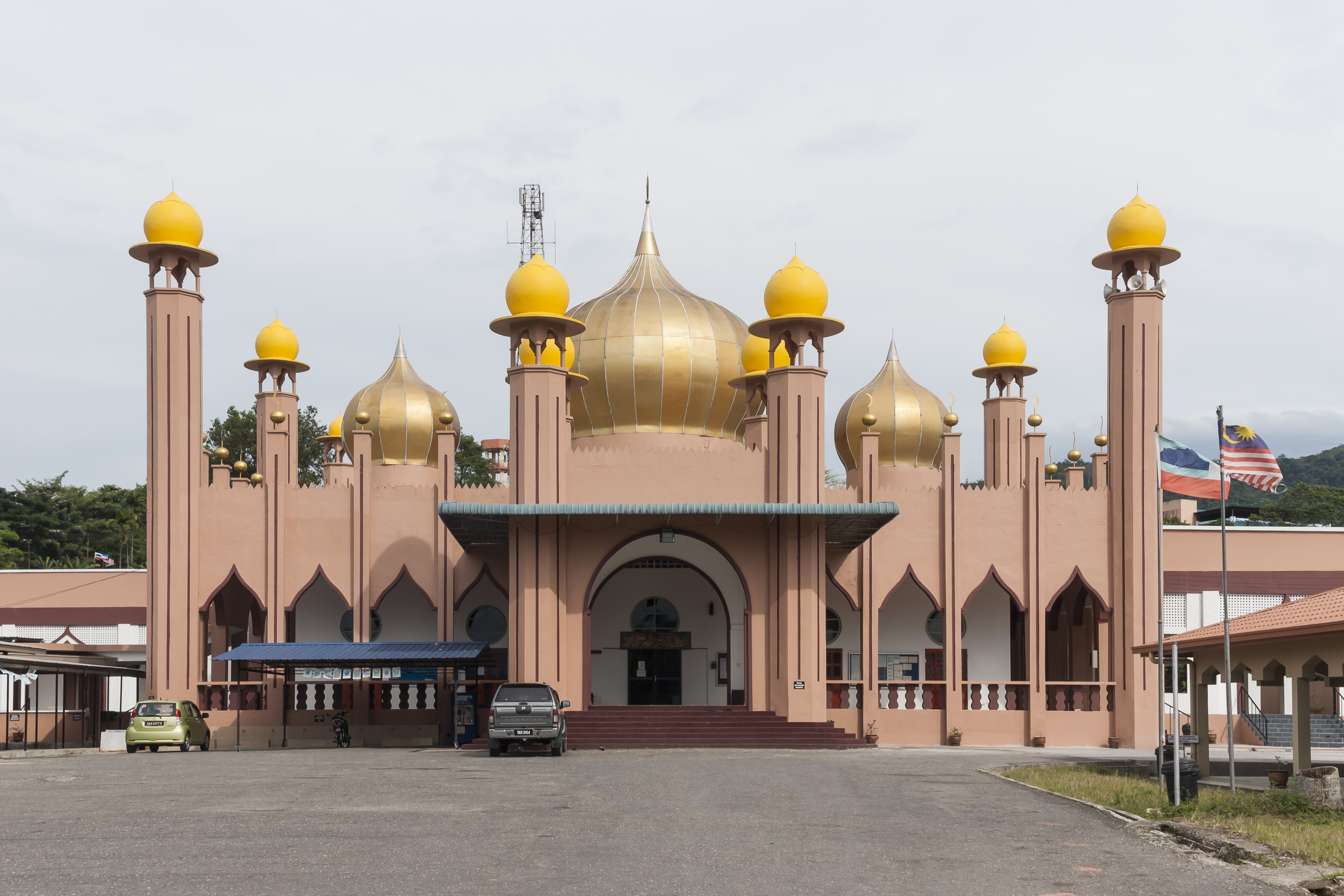 Town Mosque of Ranau)